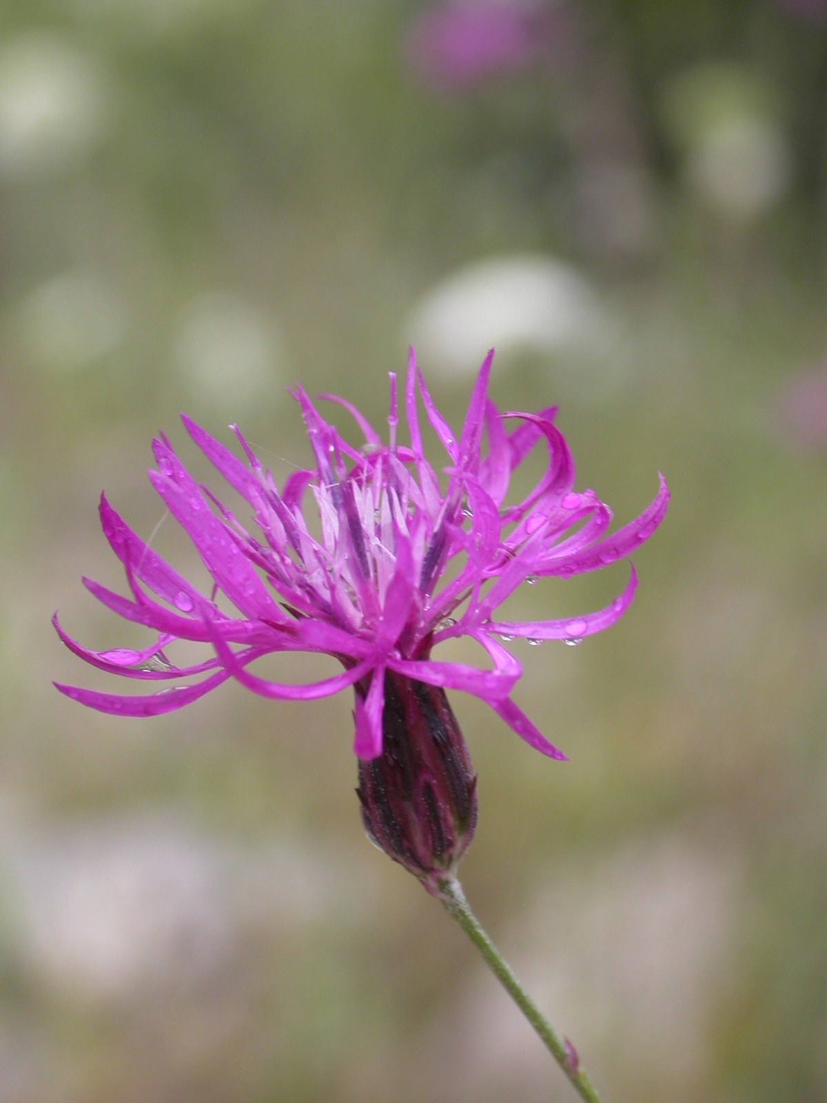 False Saw-wort, Crupina crupinastrum